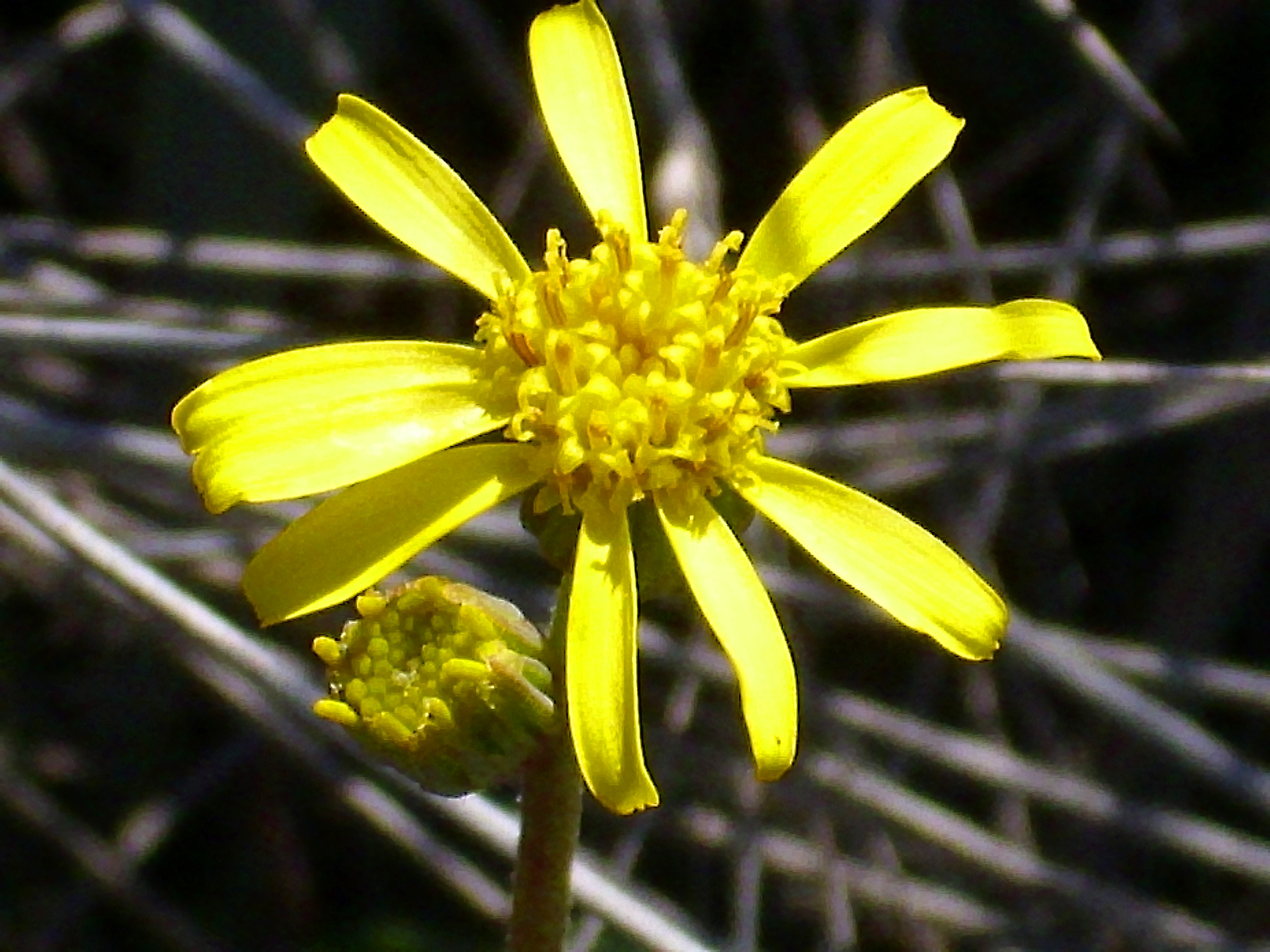 Natural Park of Lagunas de La Mata y Torrevieja, 'Senecio auricola' inflorescence close up. This is a photography of a Site of Community Importance in Spain with the ID: ES0000059. Natura2000 entry, EEA entry